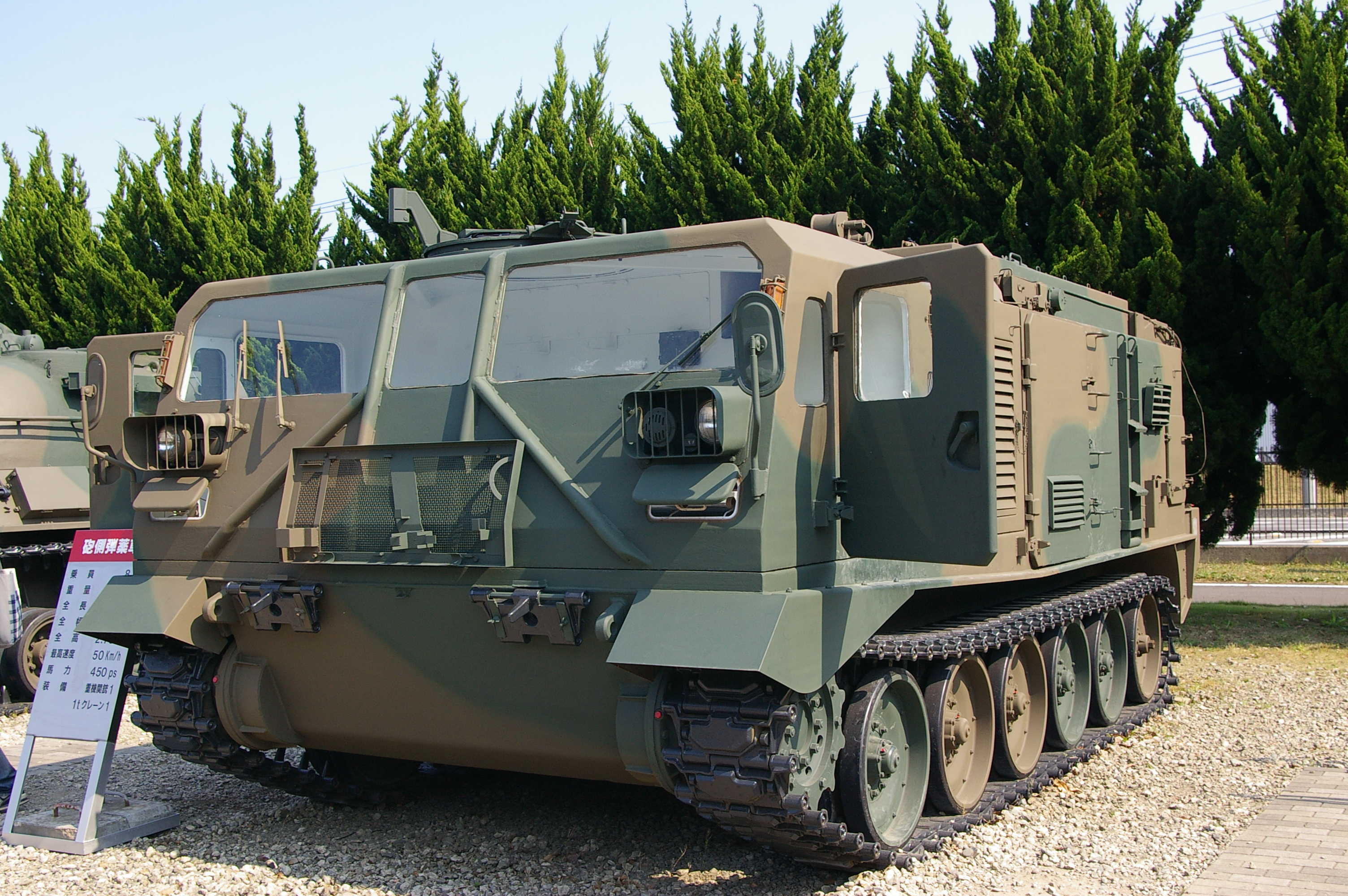 Taken by los688,18-May-2008,JGSDF Camp Kasumigaura.PD-self.JGSDF Type87 Ammo.